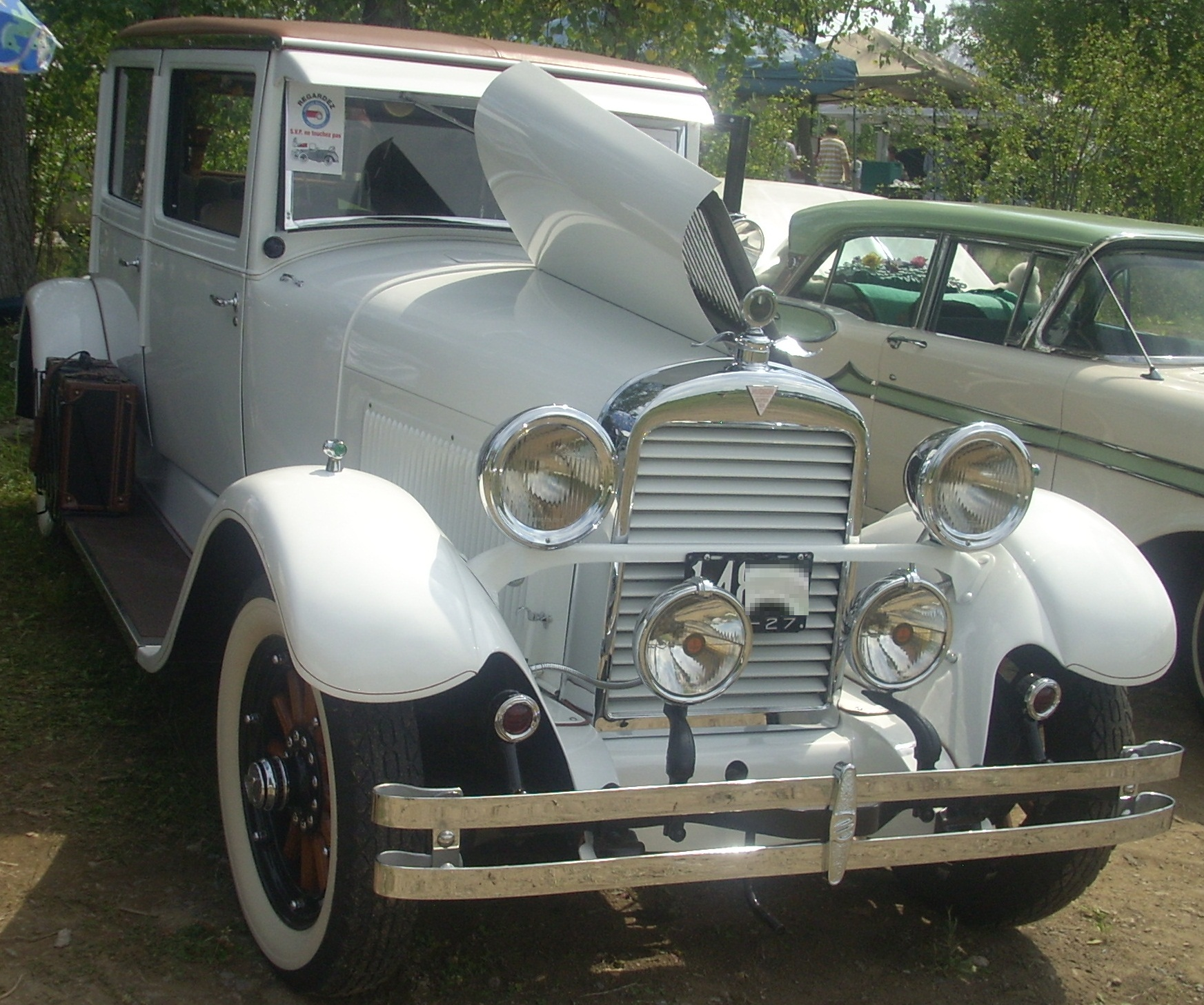 1927 Hudson Super Six photographed in Laval, Quebec, Canada at Auto classique Laval 2010.